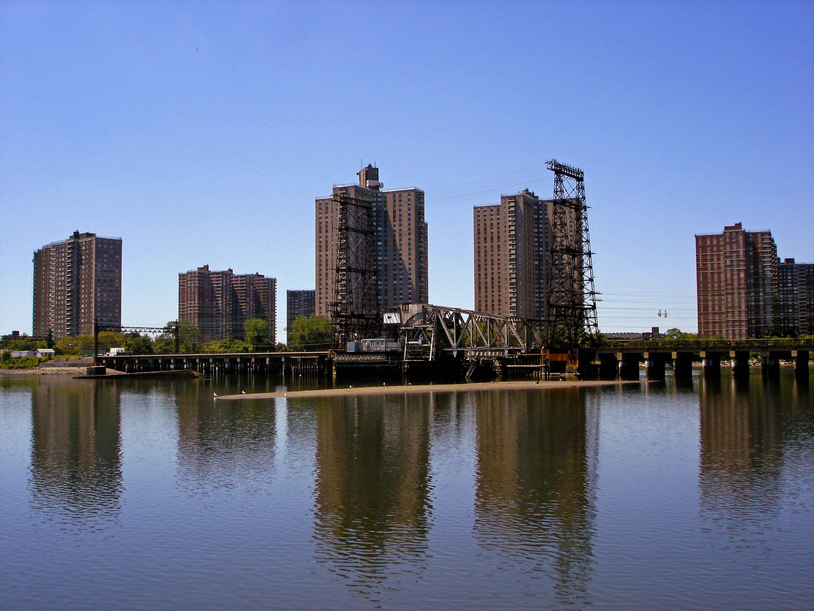 Co-op City as viewed from across the Hutchinson River.